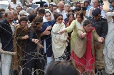 Former Prime Minister of Pakistan, Benazir Bhutto (center), with supporters outside her house.